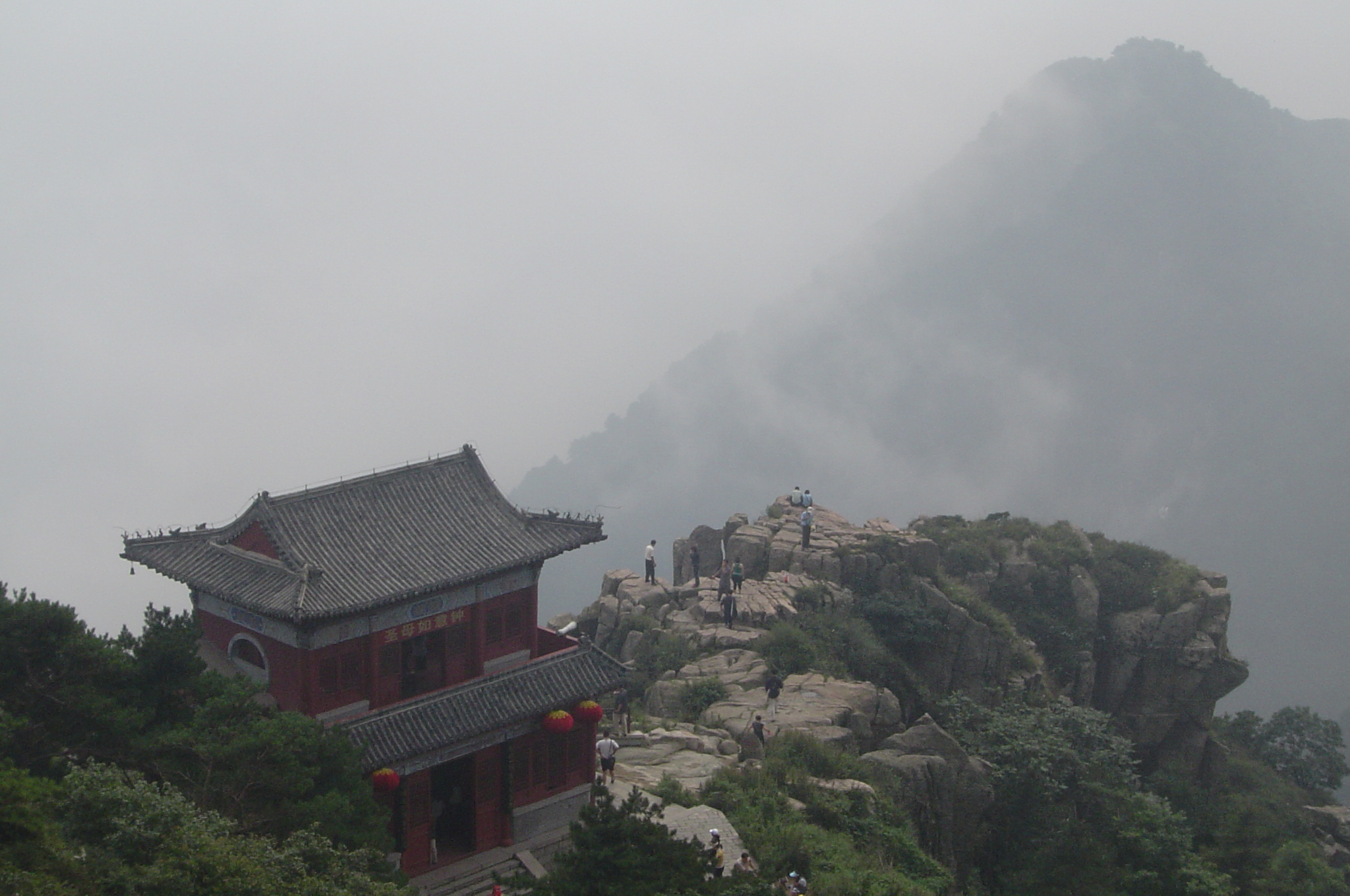 China's Taishan (Mt. Tai).